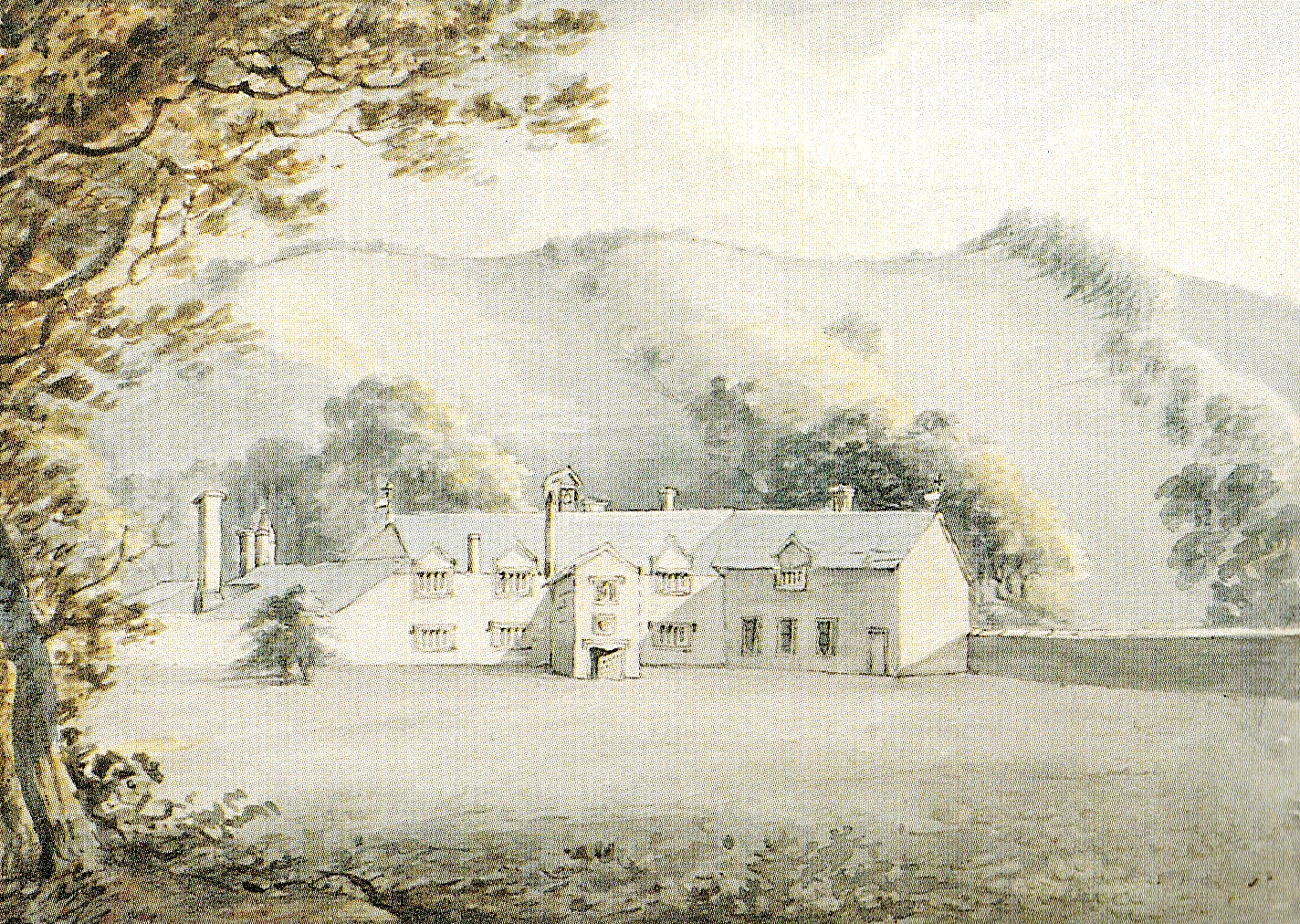 Old Oxton House in the parish of Kenton, Devon, demolished in 1781 by its owner Rev John Swete (d.1821) who rebuilt it in the Georgian style.